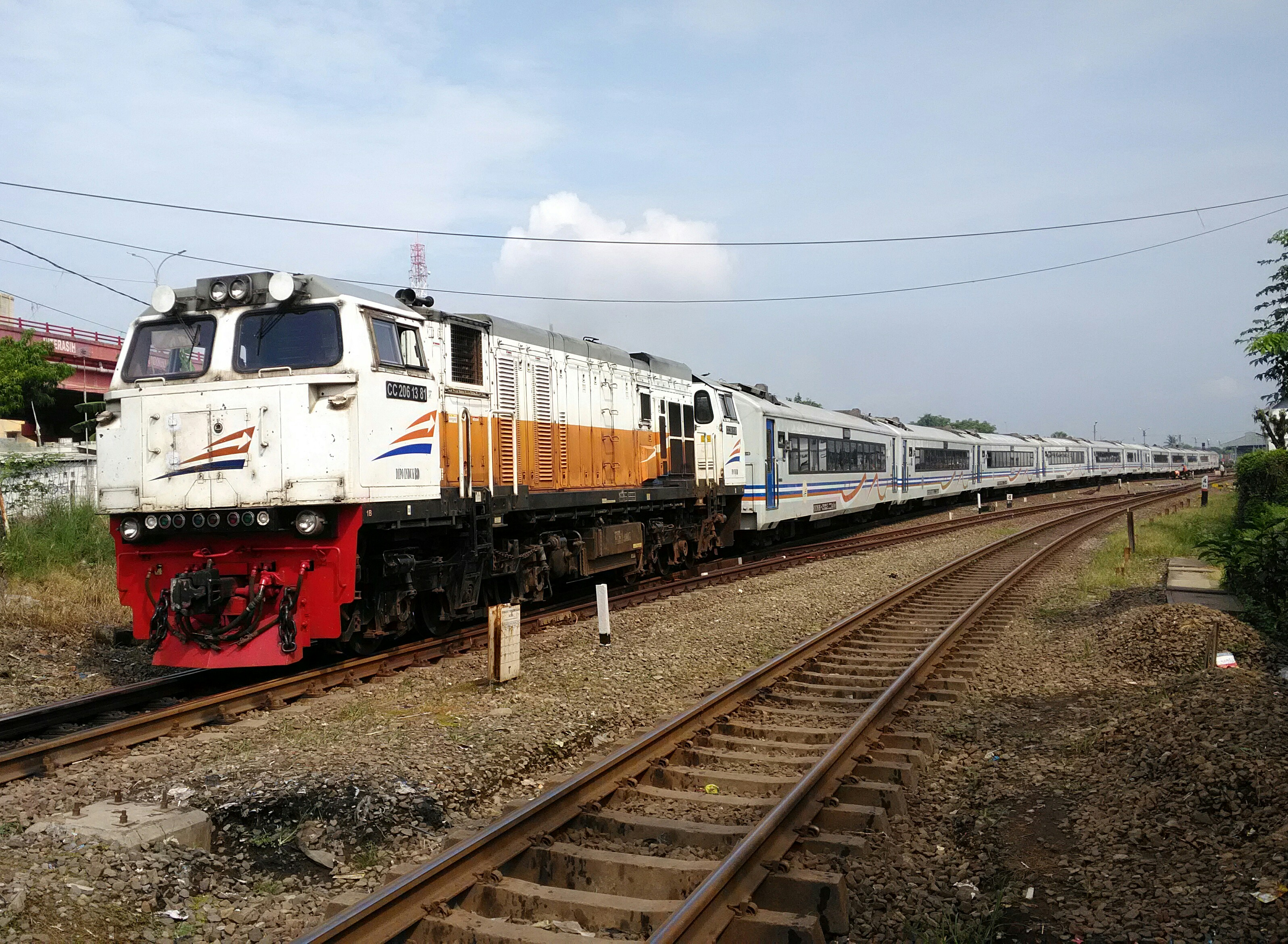 Argo Dwipangga Train crossing at JPL 1 Cikampek